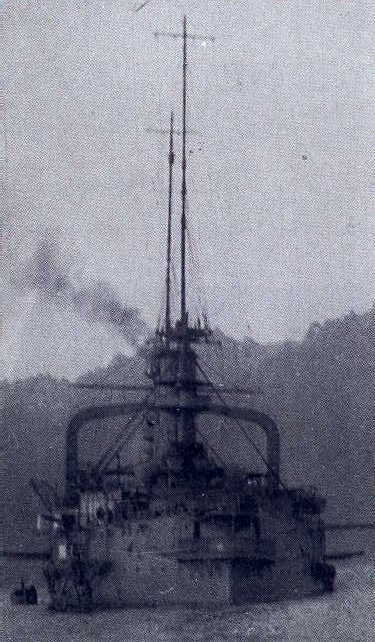 HMS Triumph (1903) firing at German positions at Tsingtao, China, in October 1914